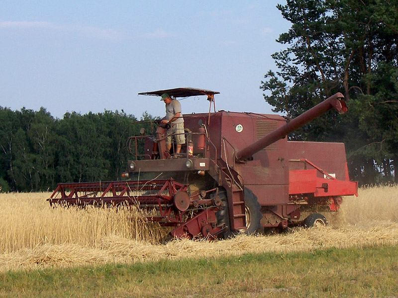 Polish combine harvester Bizon Super ZO56